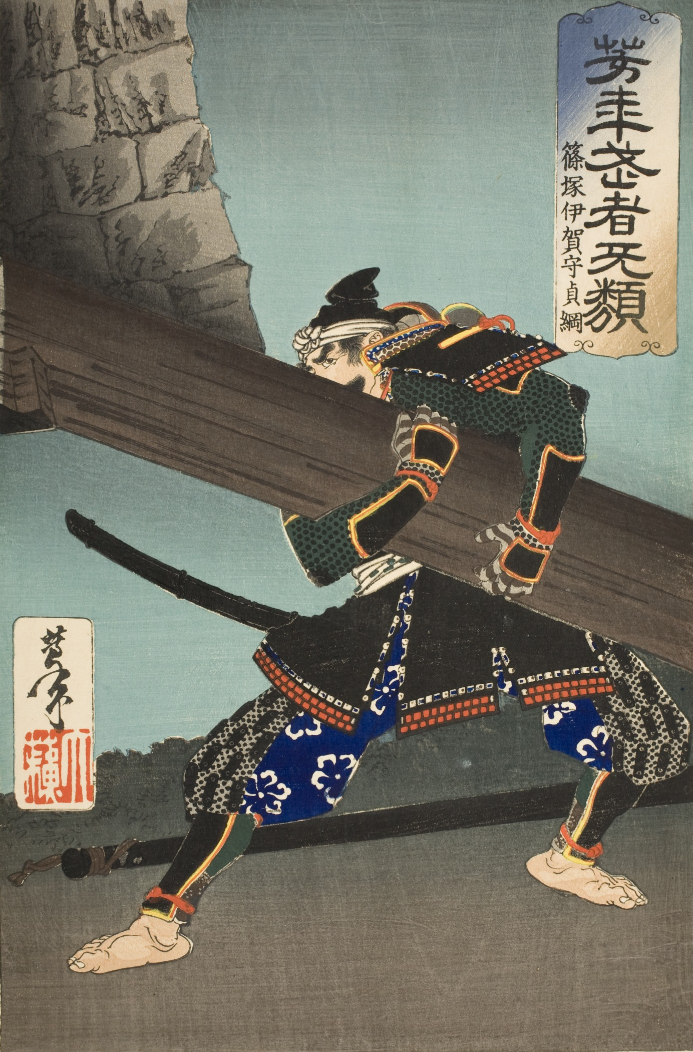 first month, 1886 Series: Yoshitoshi's Warriors Trembling with Courage Prints; woodcuts Color woodblock print Gift of Arthur and Fran Sherwood (M.2007.152.64) Japanese Art 新田義貞の部下の篠塚伊賀守重広。新田四天王の一人で、怪力で知られた。Shinozuka, a senior vassal of Nitta Yoshisada, was known as a courageous warrior and was famous for his immense strength. He was described in "Taiheiki" (The Record of the Great Peace).